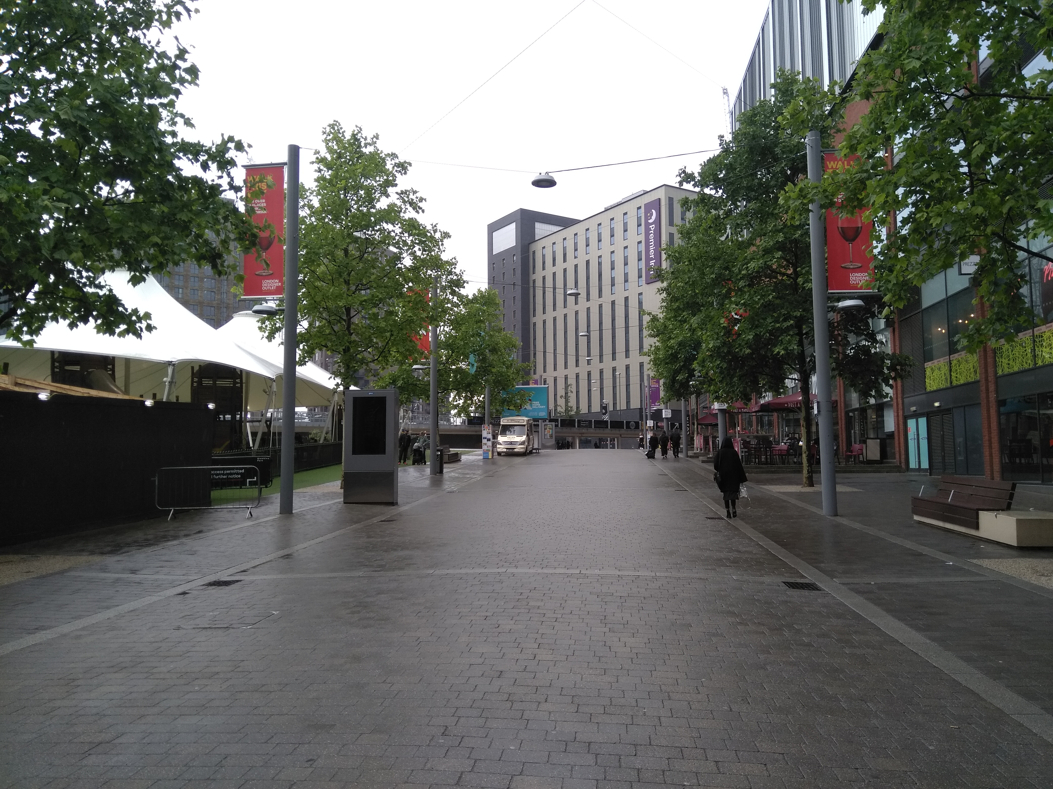 Wembley Park Boulevard in Wembley, England.